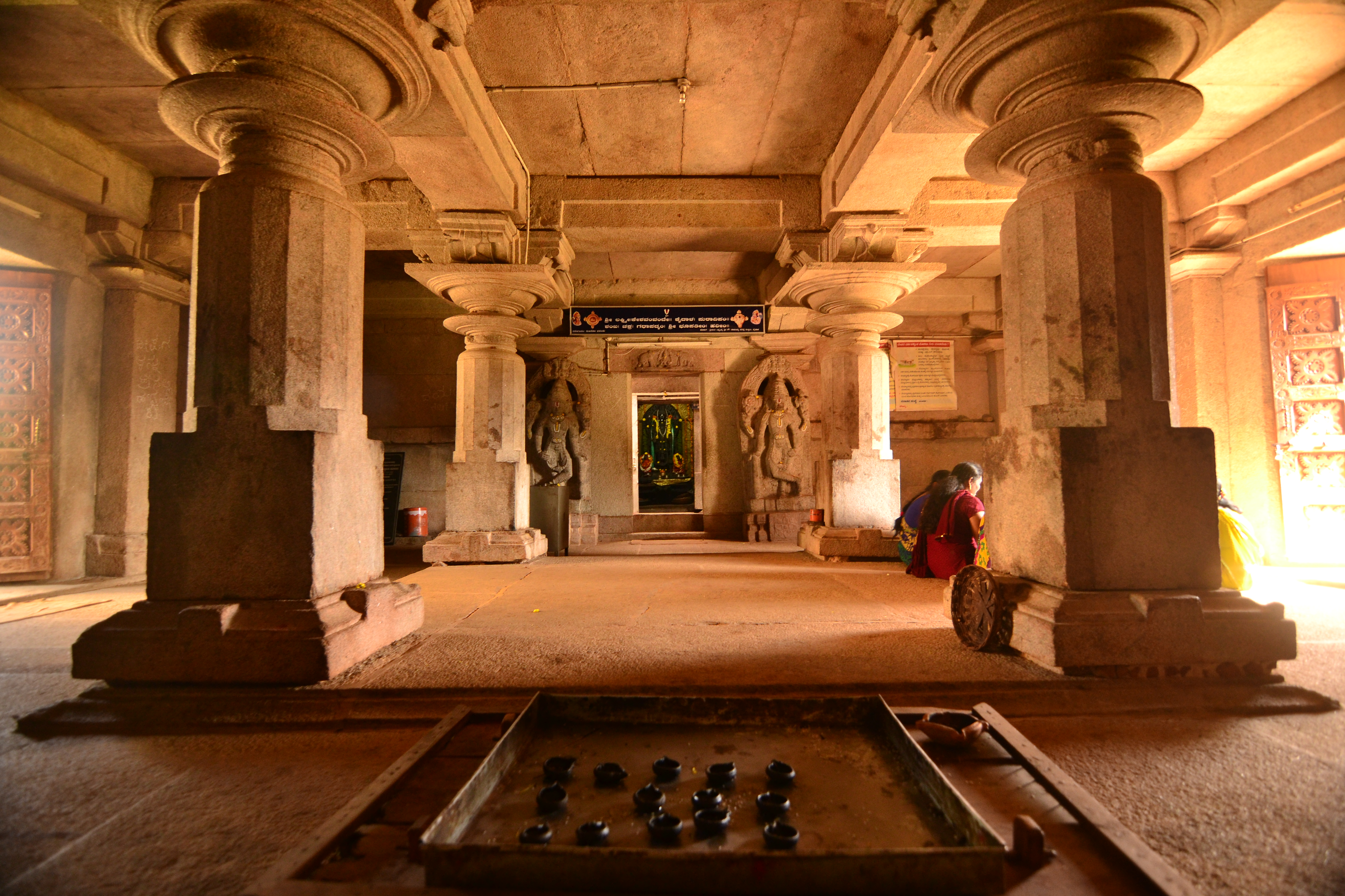 Interiors of Chennakeshava Temple